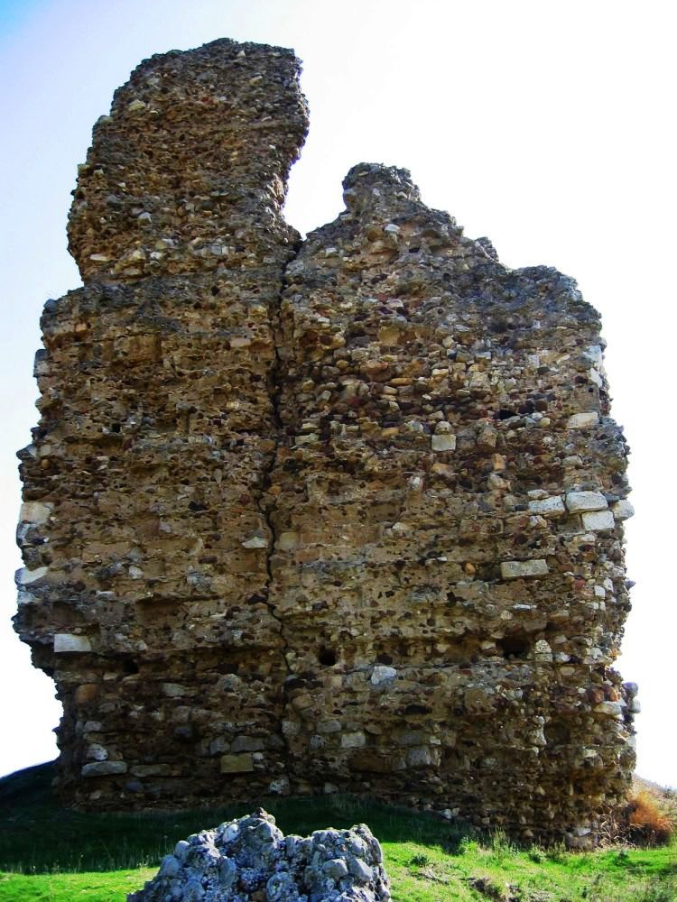 Castillo de Saldaña